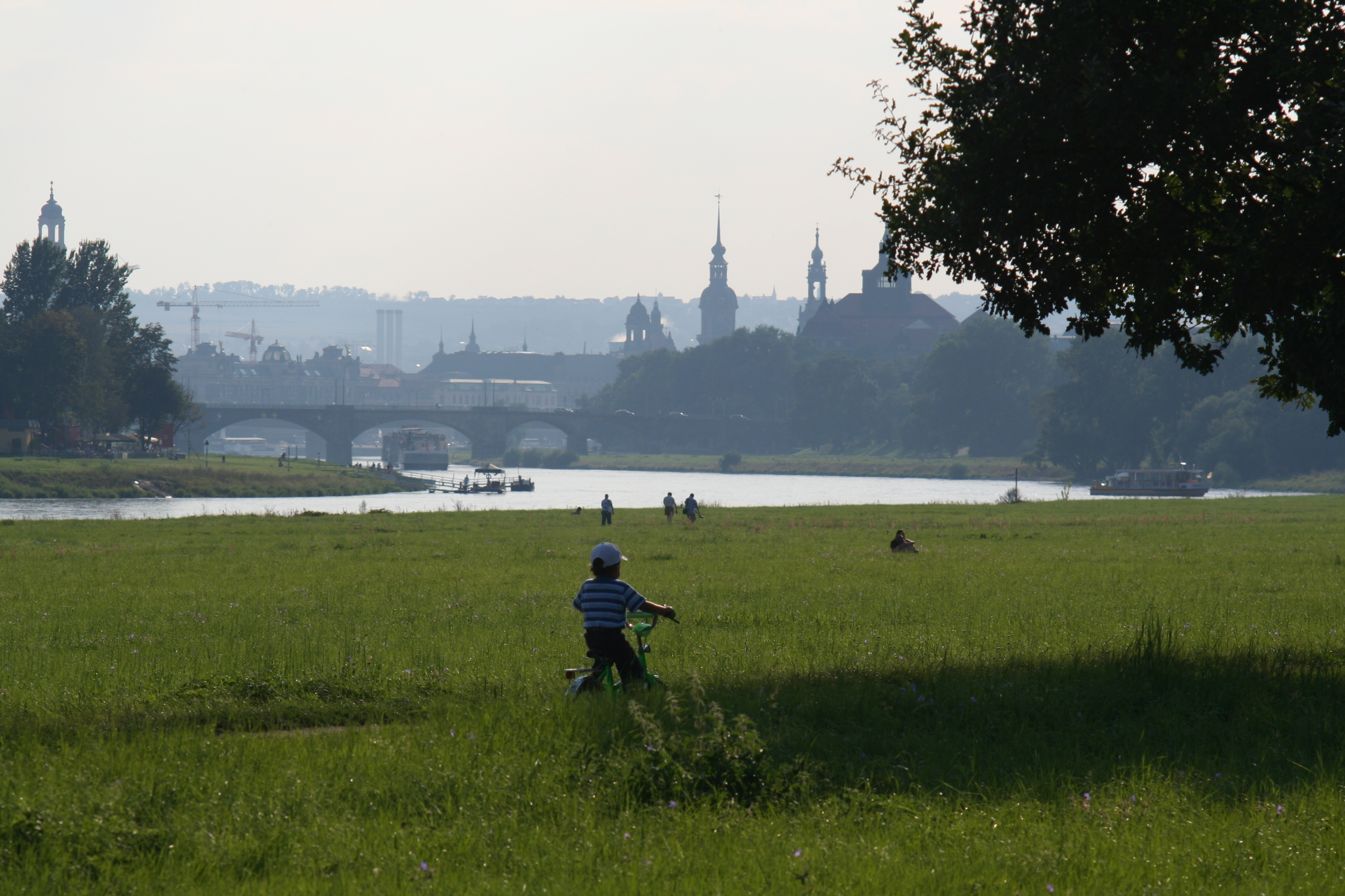 Elbe river west of planned Waldschlößchen-Bridge Dresden